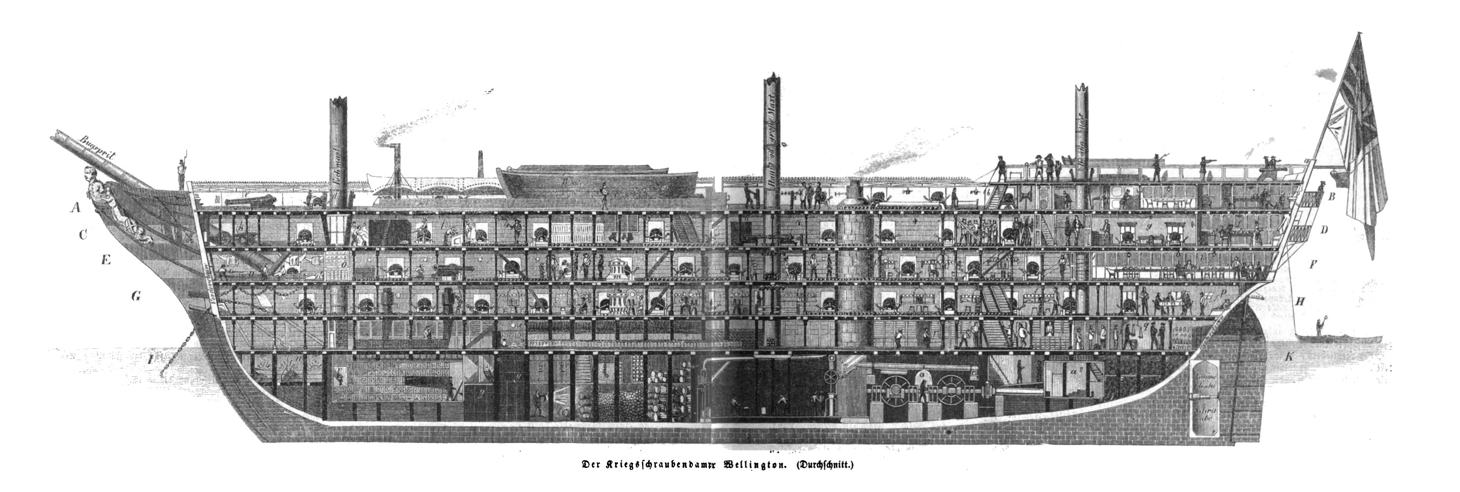 caption: "Der Kriegsschraubendampfer Wellington (Durchschnitt)."